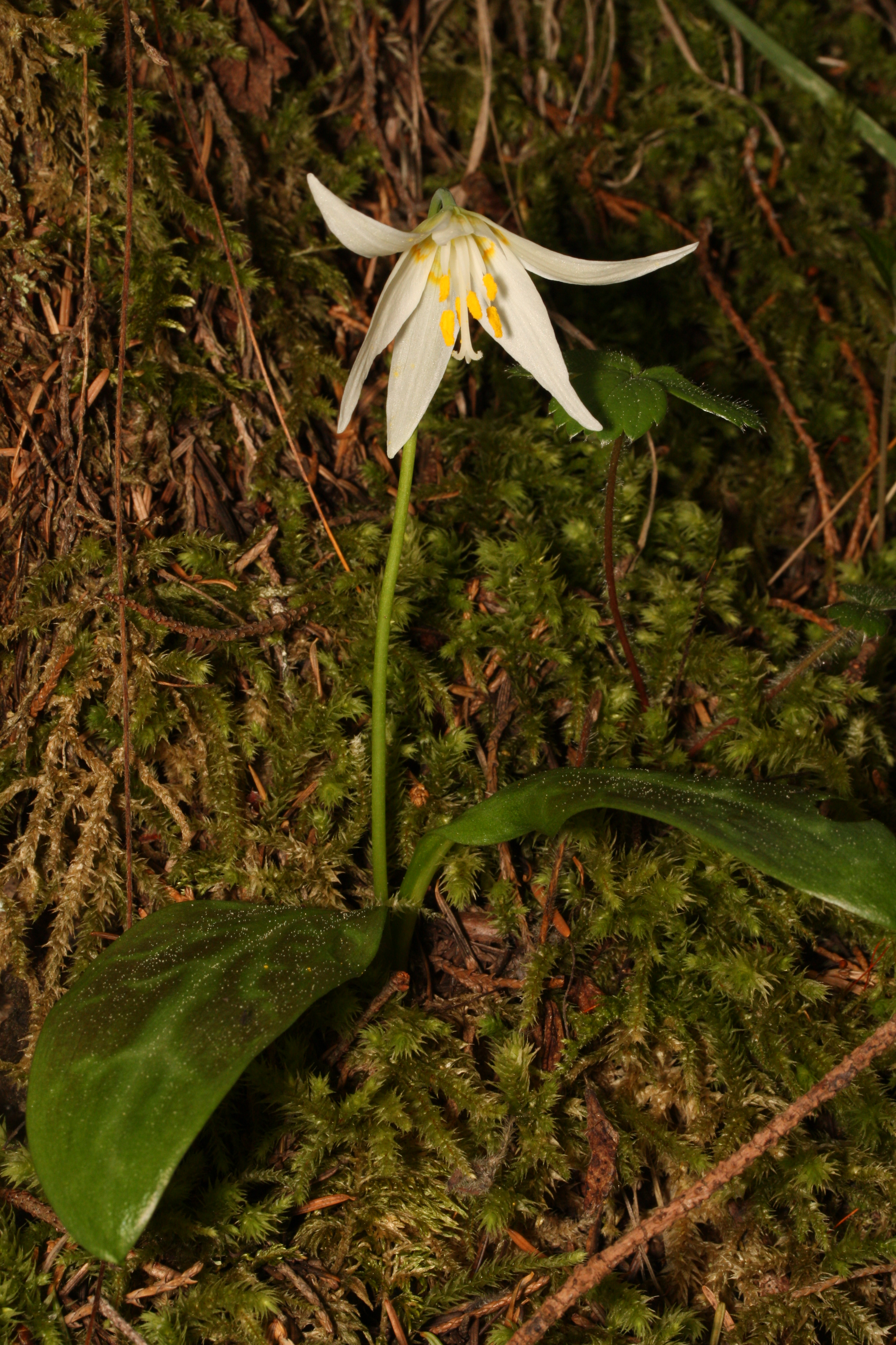 Giant White Fawn-lily, Deer's Tongue, Wild Easter Lily